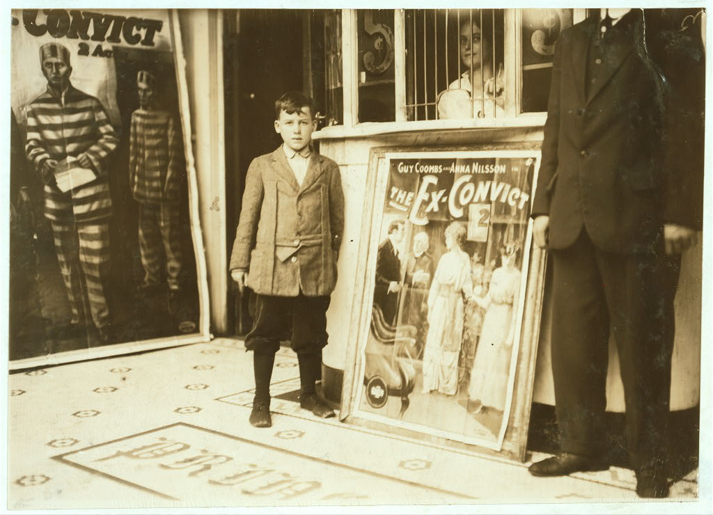 Brown McDowell 12 year old usher in Princess Theatre. Works from 10 A.M. tp 10 P.M. Can barely read; has reached the second grade in school only. Investigator reports little actual need for earnings. Location: Birmingham, Alabama.